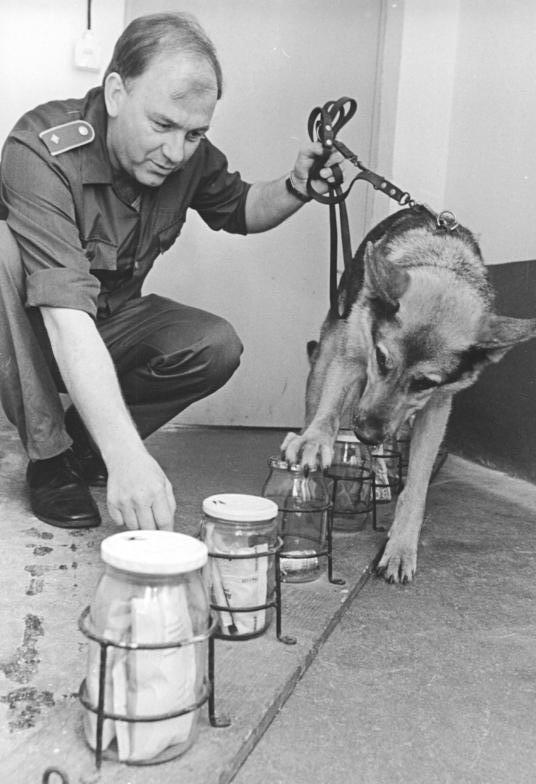 customs drug detection dog at Dresden airport